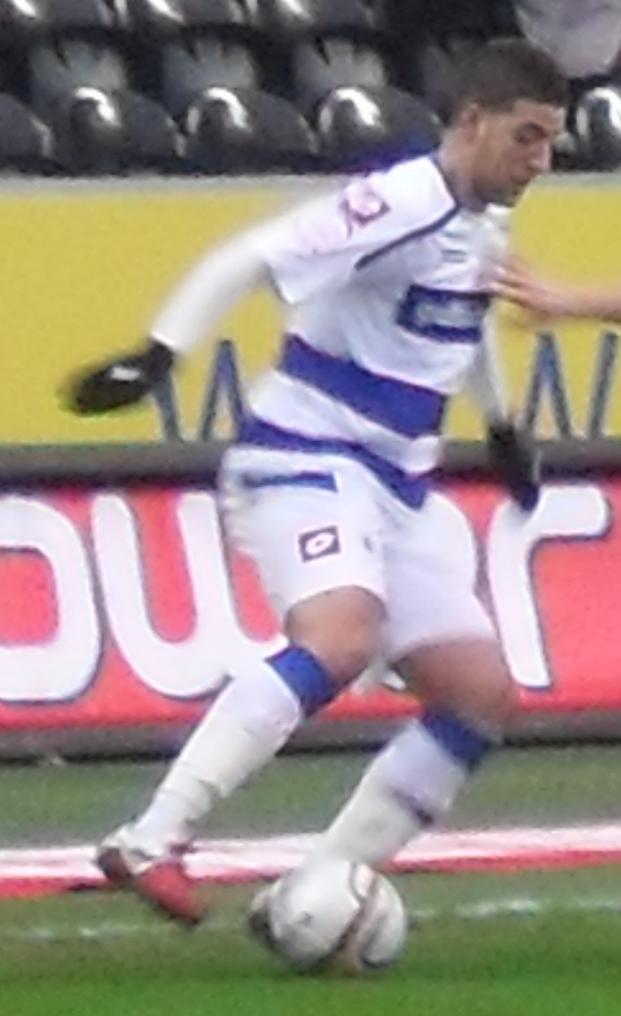 Adel Taarabt